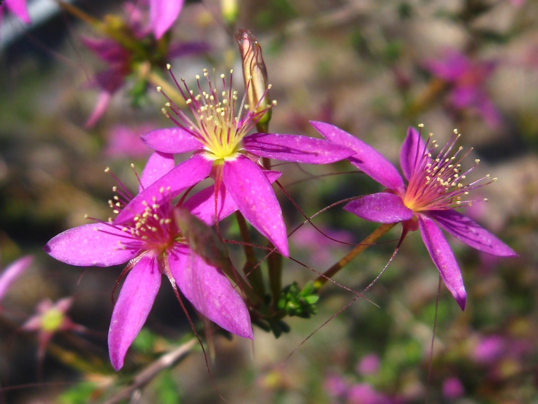 Calytrix fraseri flowers and buds in Whiteman Park, Perth, West Australia, March 2010.